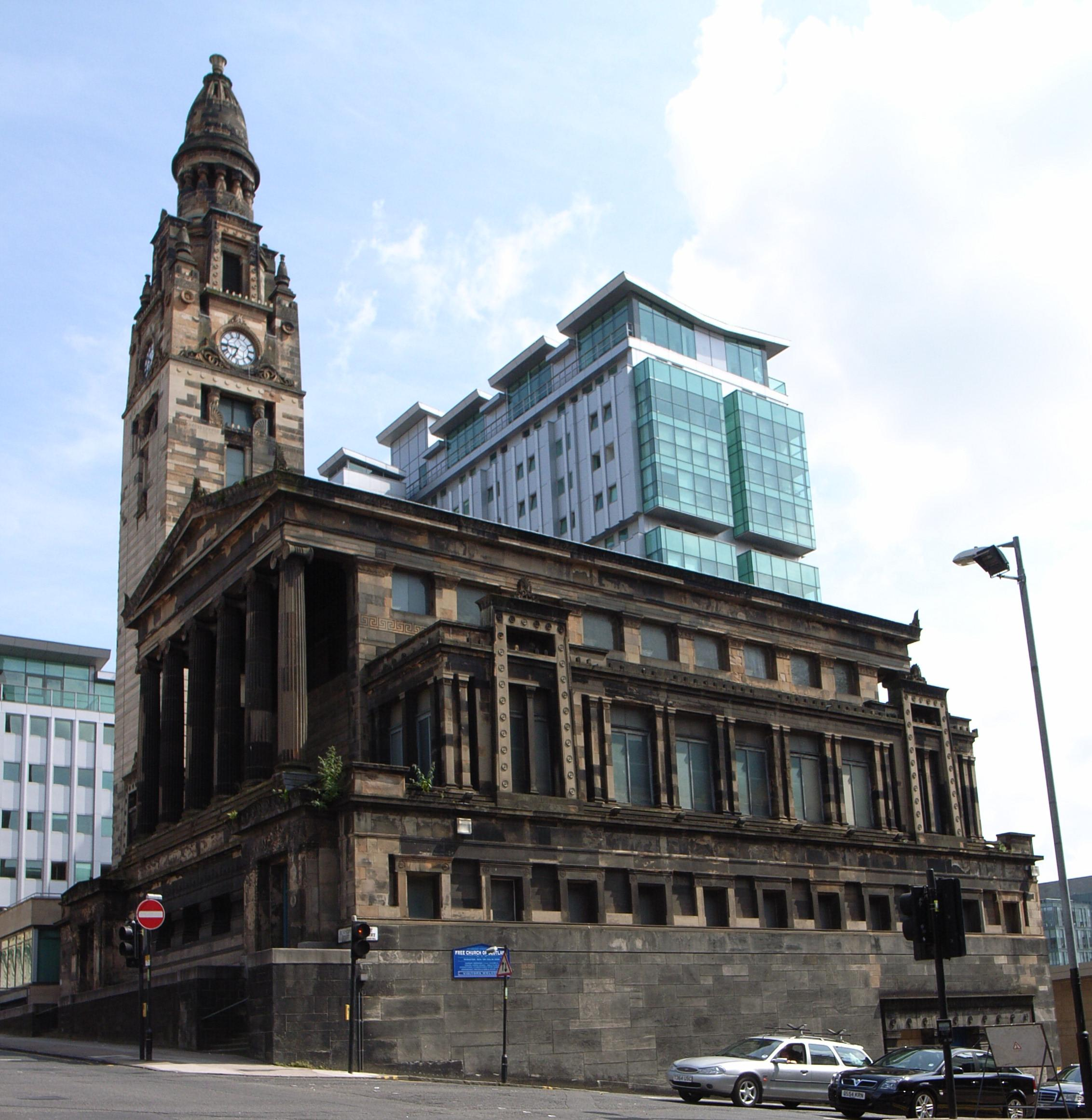 St Vincent Street Free Church, Glasgow, by Alexander Thomson 1857-9 (built for the United Presbyterians.)